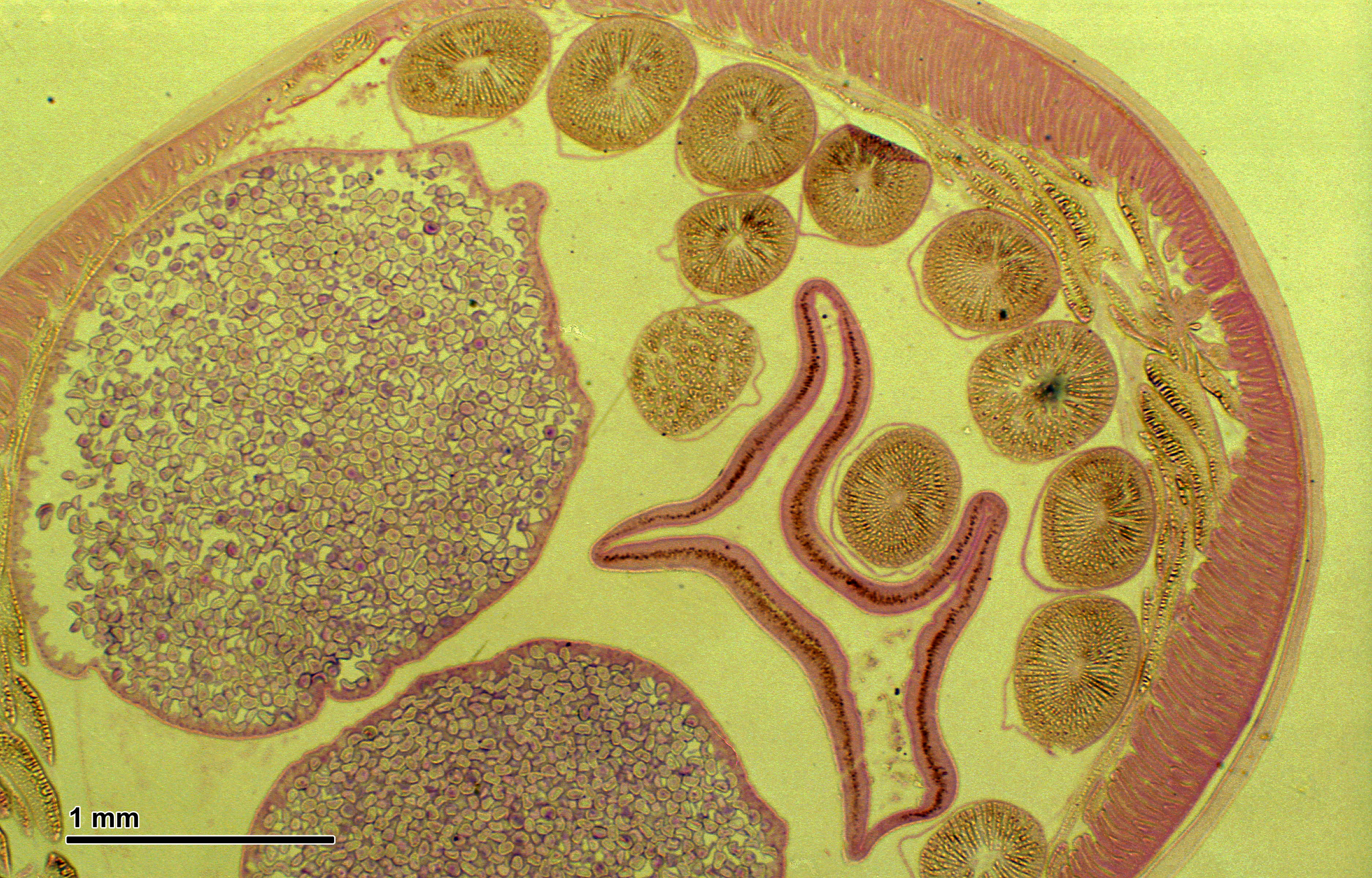 Giant roundworm (Ascaris lumbricoides): Cross-section. Optical microscopy technique: Bright field. Magnification: 50x (for picture width 26 cm ~ A4 format).